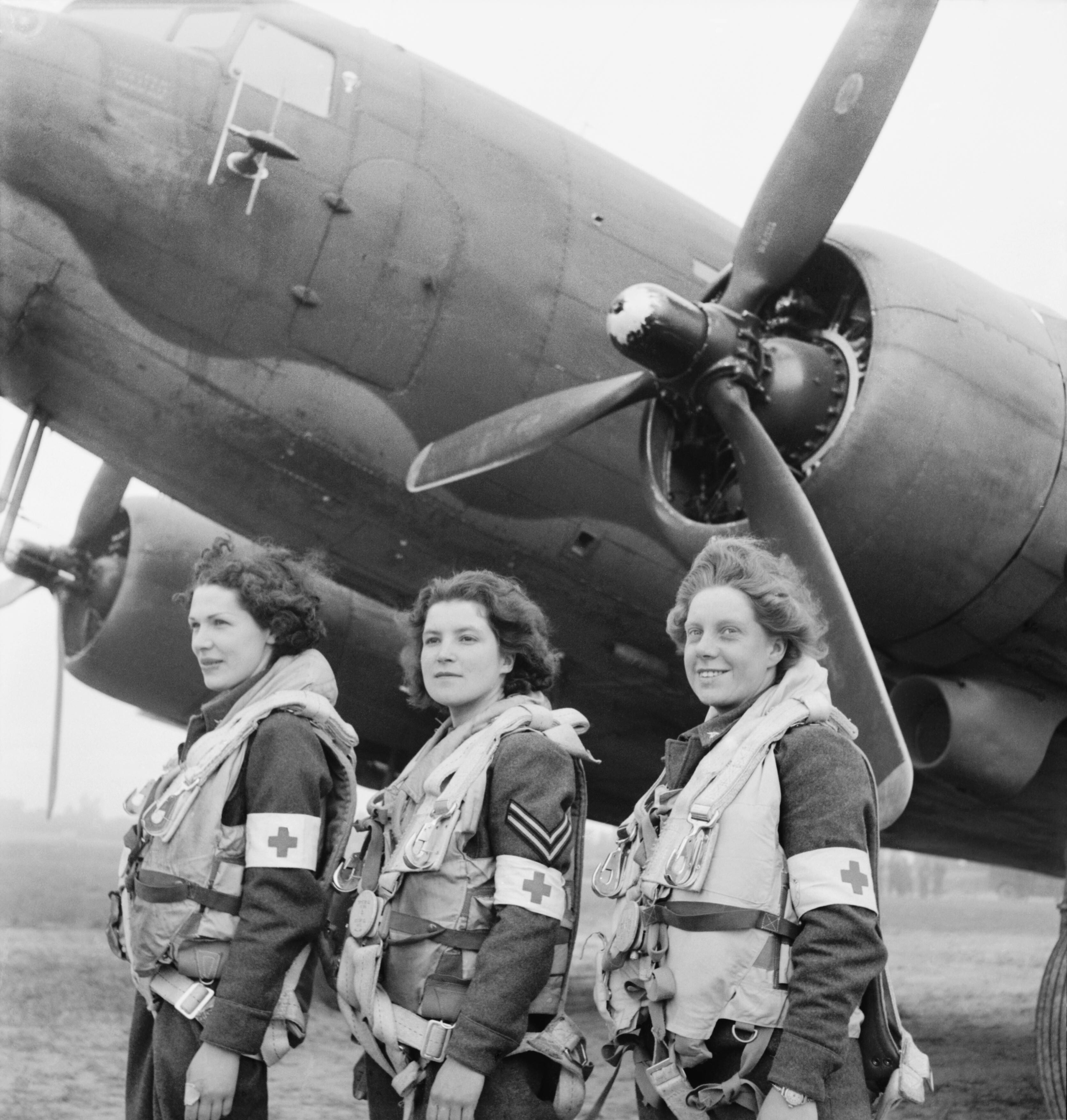 IWM caption : "Royal Air Force Transport Command, 1943-1945. The first WAAF nursing orderlies selected to fly on air-ambulance duties to France, standing in front of a Douglas Dakota Mark III of No. 233 Squadron RAF at B2/Bazenville, Normandy. From left to right: Leading Aircraftwoman Myra Roberts of Oswestry, Corporal Lydia Alford of Eastleigh and Leading Aircraftwoman Edna Birbeck of Wellingborough". See also : File:Royal Air Force Transport Command, 1943-1945. CL118.jpg